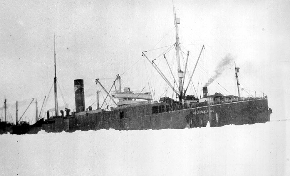 Norwegian whaling factory N. T. Nielsen-Alonso of Larvik, ex. Custodian (1900). Sunk by German submarine in 1943